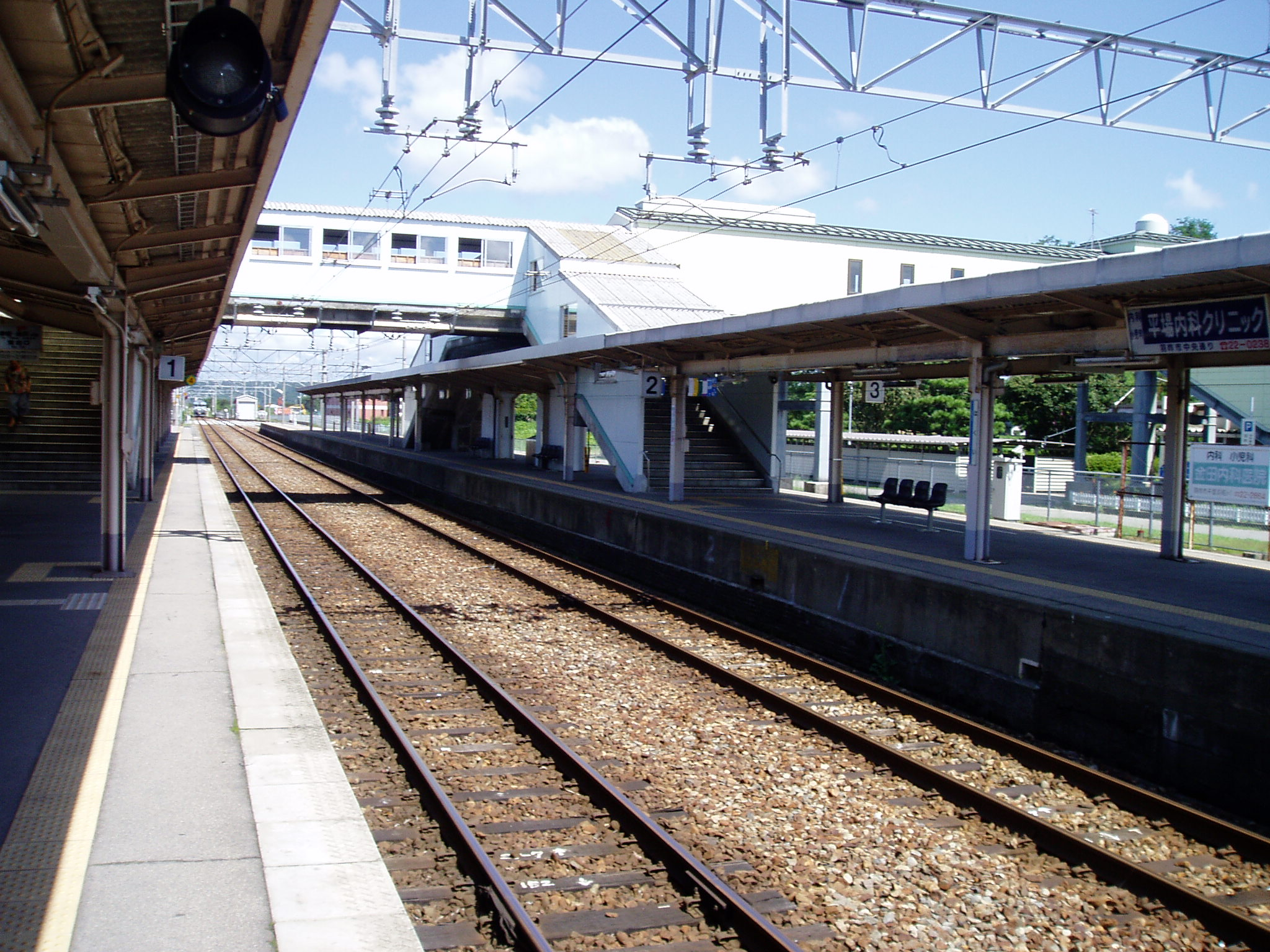 The plathome in Hakui Station.